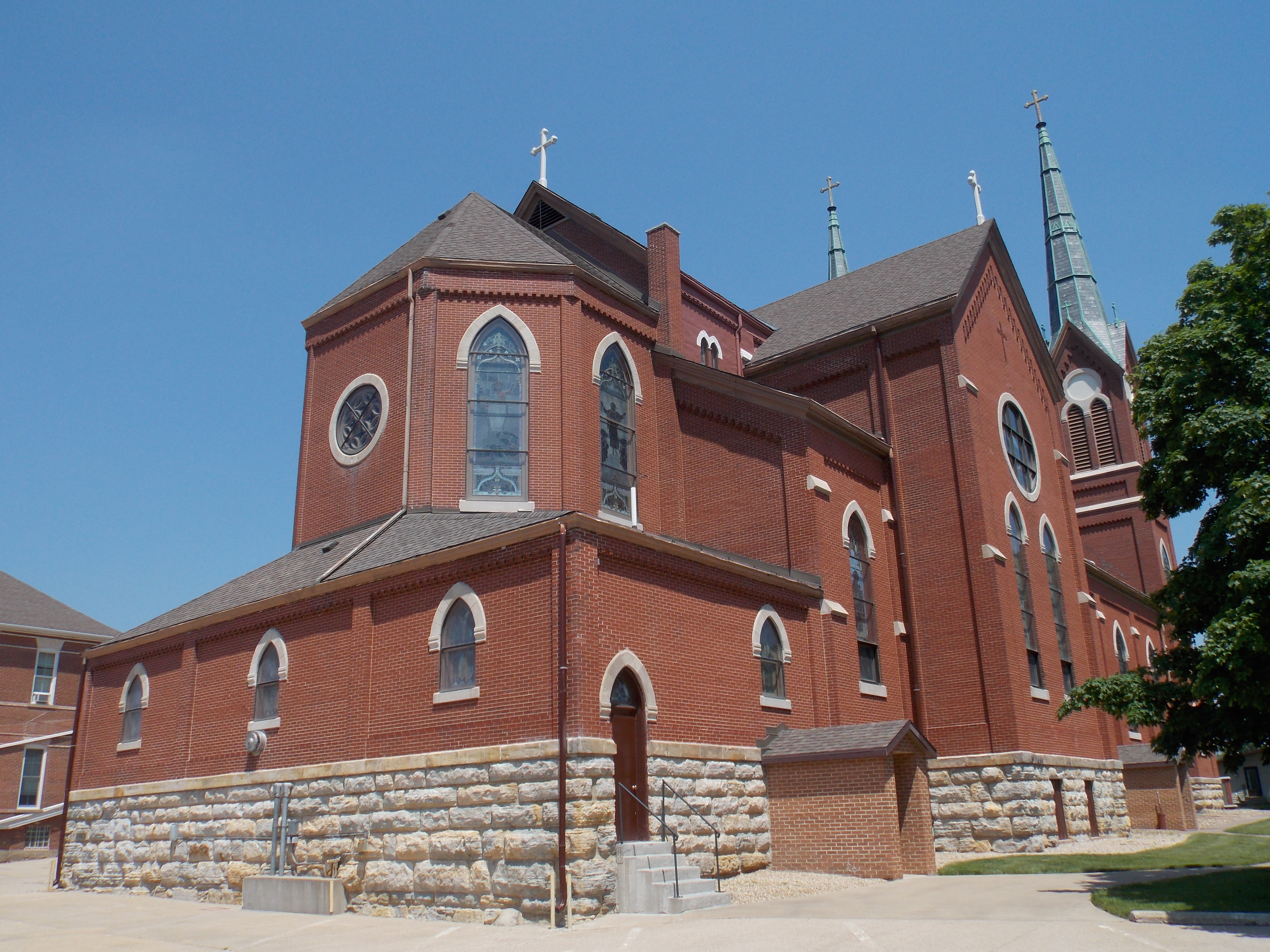 The church in the St. Mary's Catholic Church Historic District.